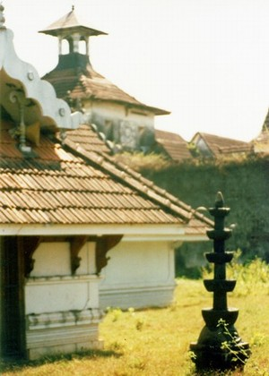 This photograph was taken by me in December 2000. I release it in This image is of the Kshetram (or temple) devoted to the deity Palayannur bhagvathy in the central courtyard of the Mattancherry Palace, in Kochi (Cochin), in Kerala, South India. The traditional lamp or Velakku, is seen in the foreground. While the Dutch-Kochi Jewish Synagogue is faintly seen in the distant background.